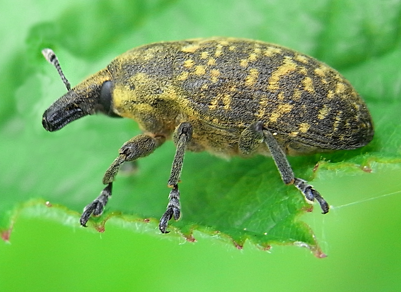 Larinus turbinatus Ricoh R8